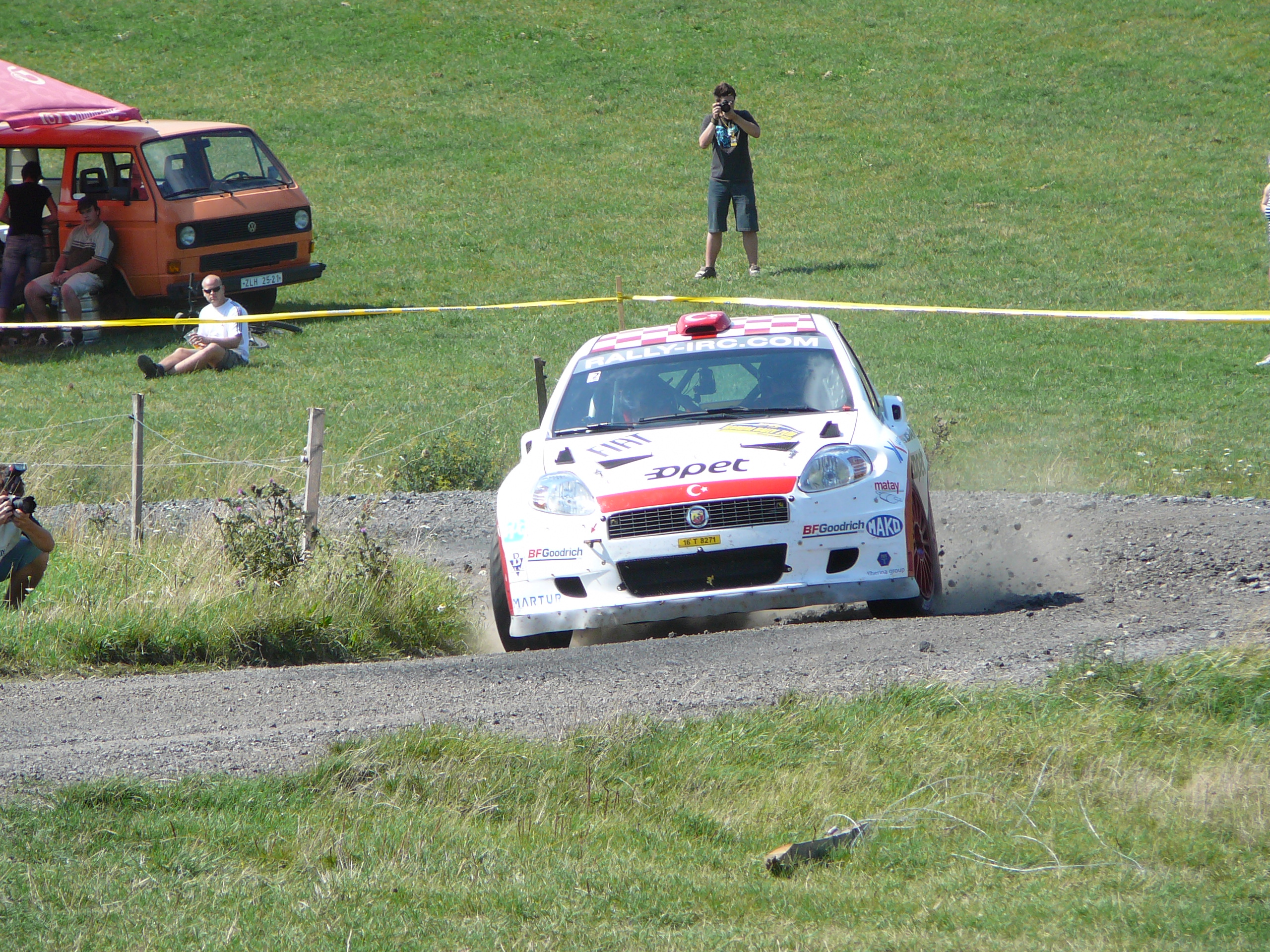 #12 - Volkan Isik/Kaan Özşenler, Fiat Abarth Grande Punto S2000 (N4), Barum Rally ZlínTürkçe: Volkan Işık